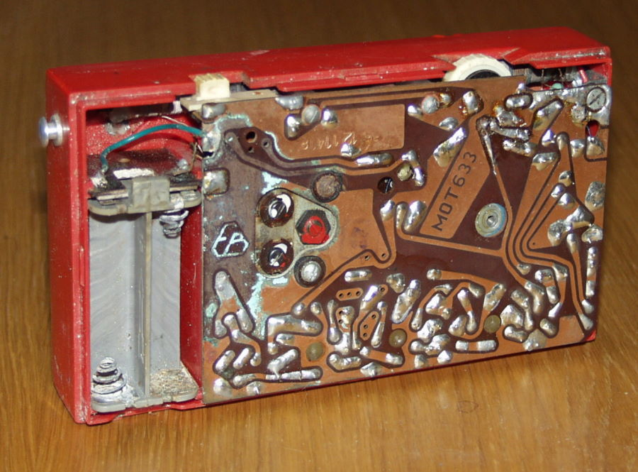 Radio "Sylwia", manufacturer: "ZRK" (Poland), 1966